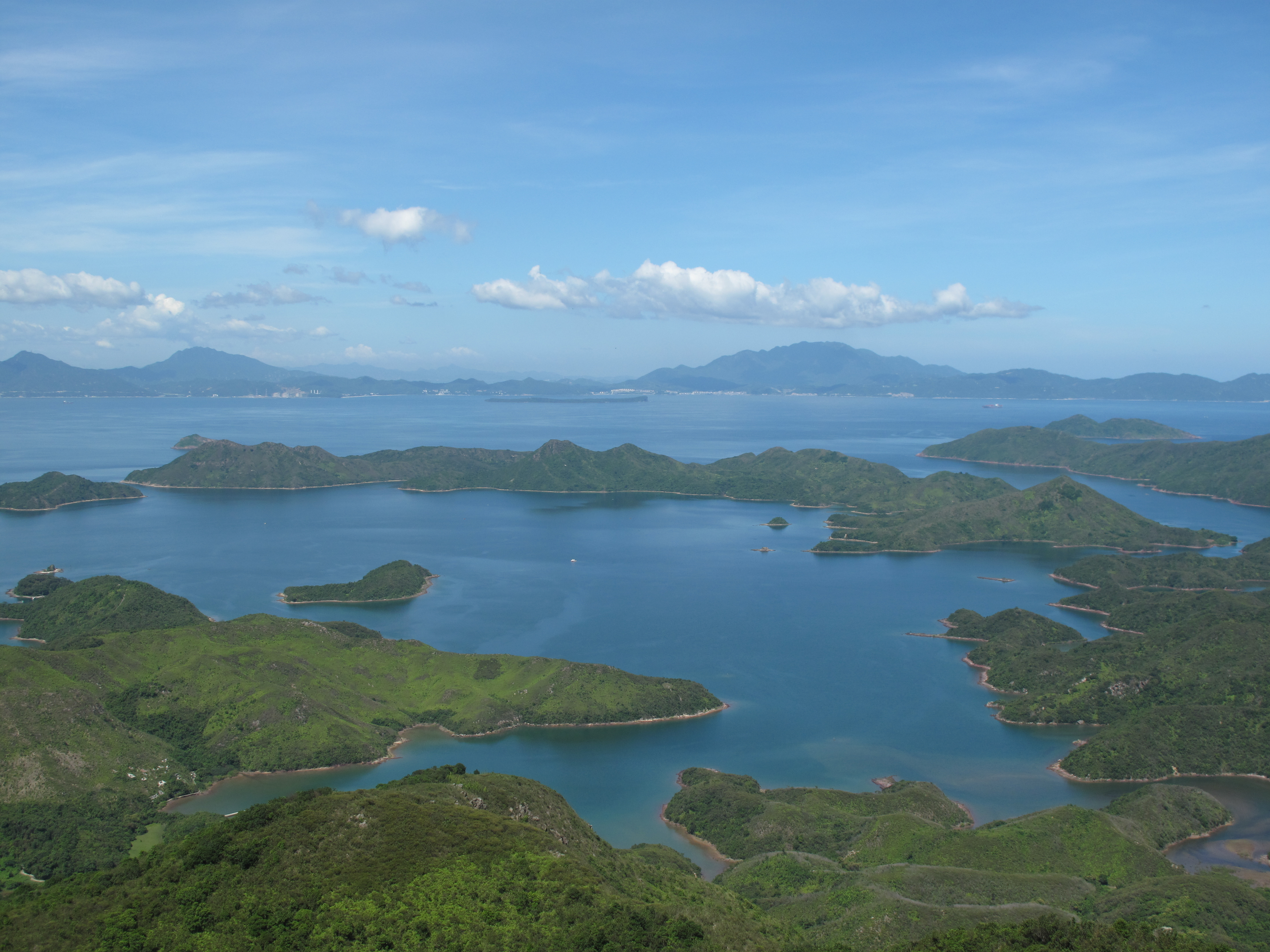 Photo of Double Haven